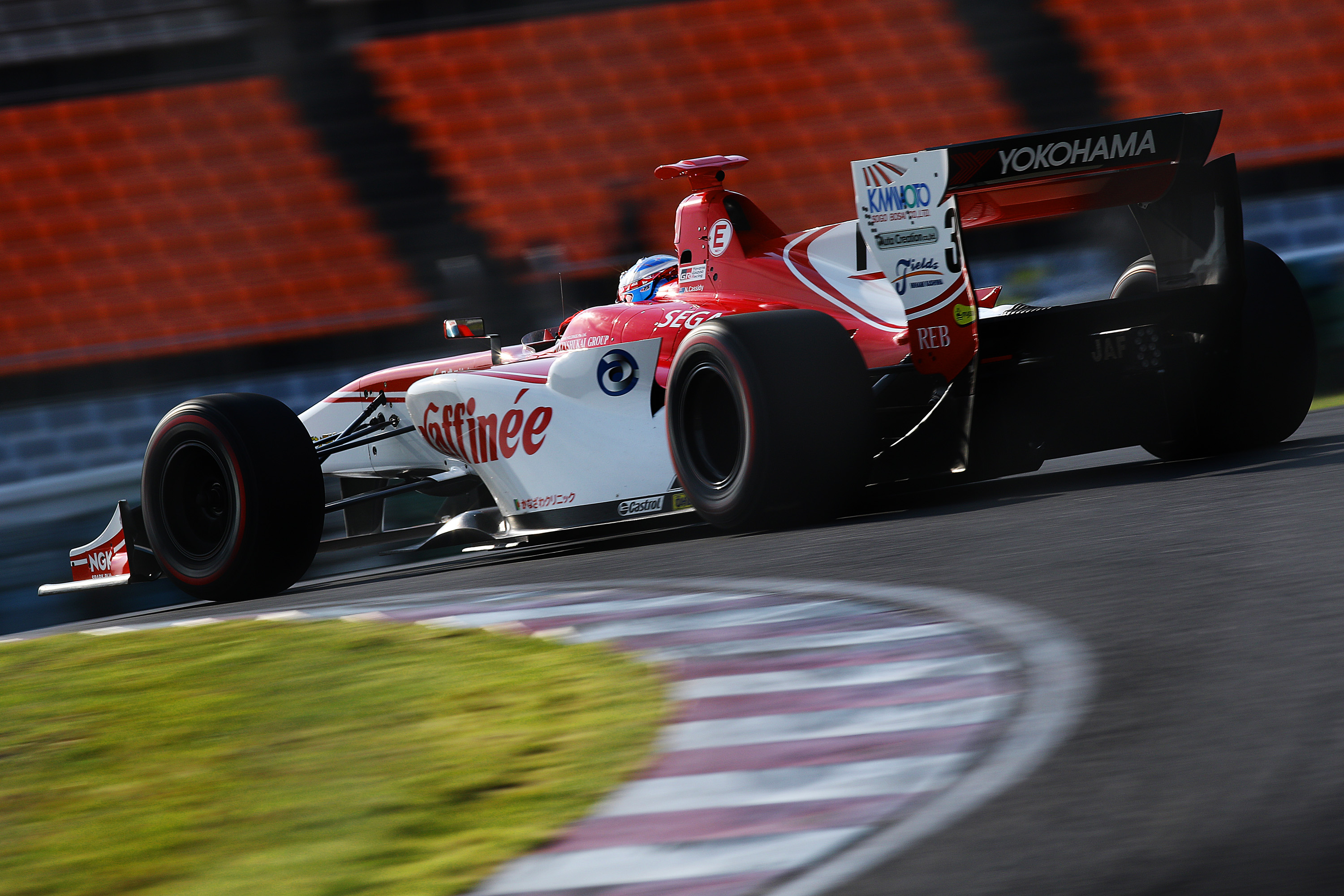 2018 Super Formula Championship, Autopolis.